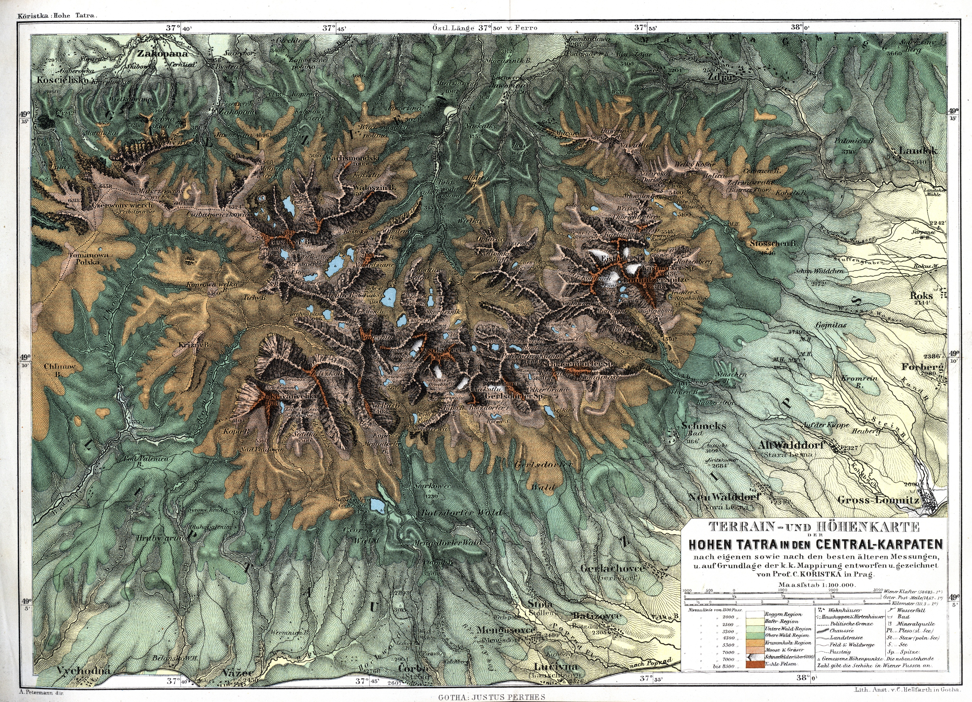 High Tatras, 1865